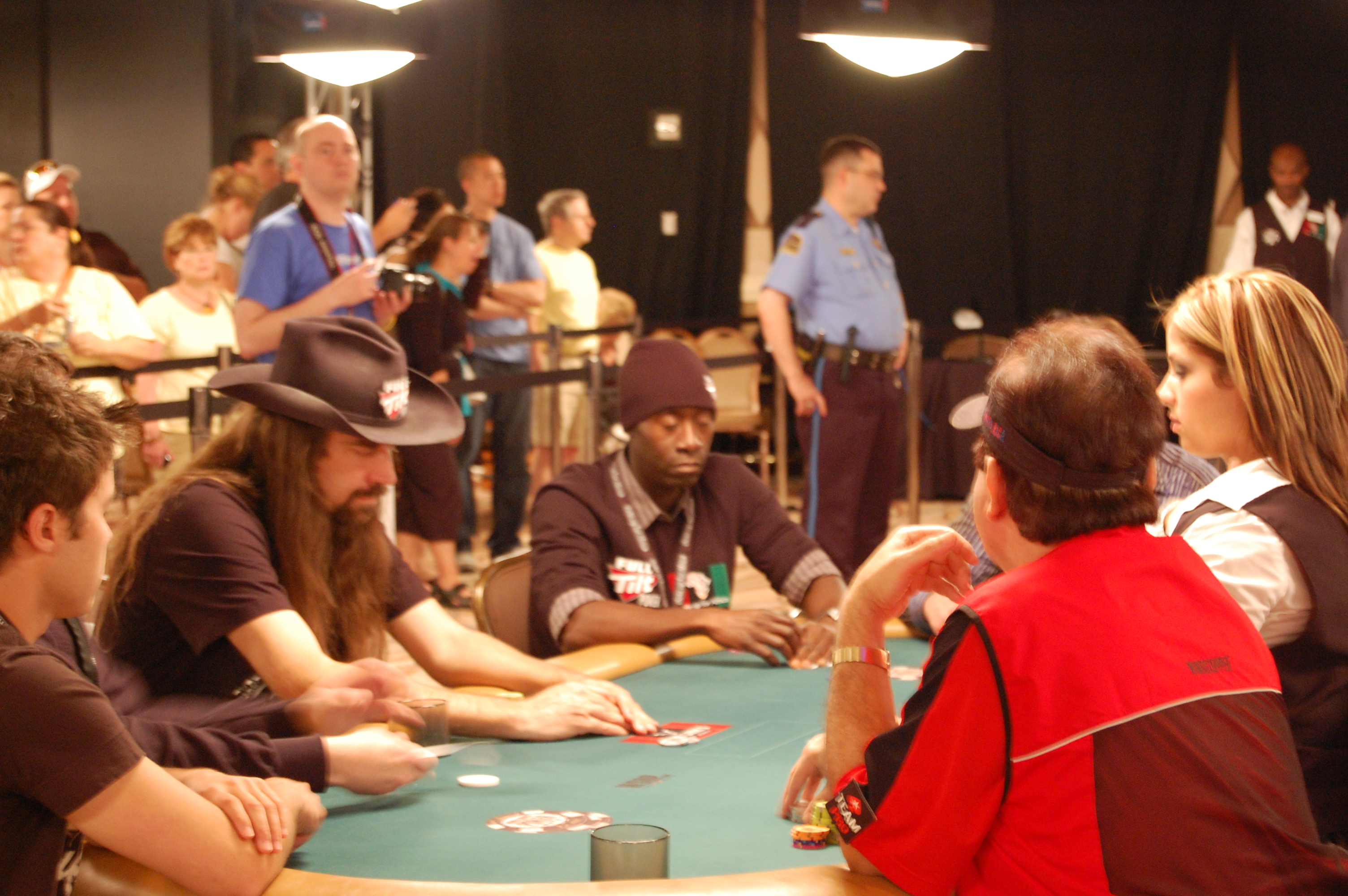 Don Cheadle playing poker at the annual Ante Up For Africa event in Las Vegas.